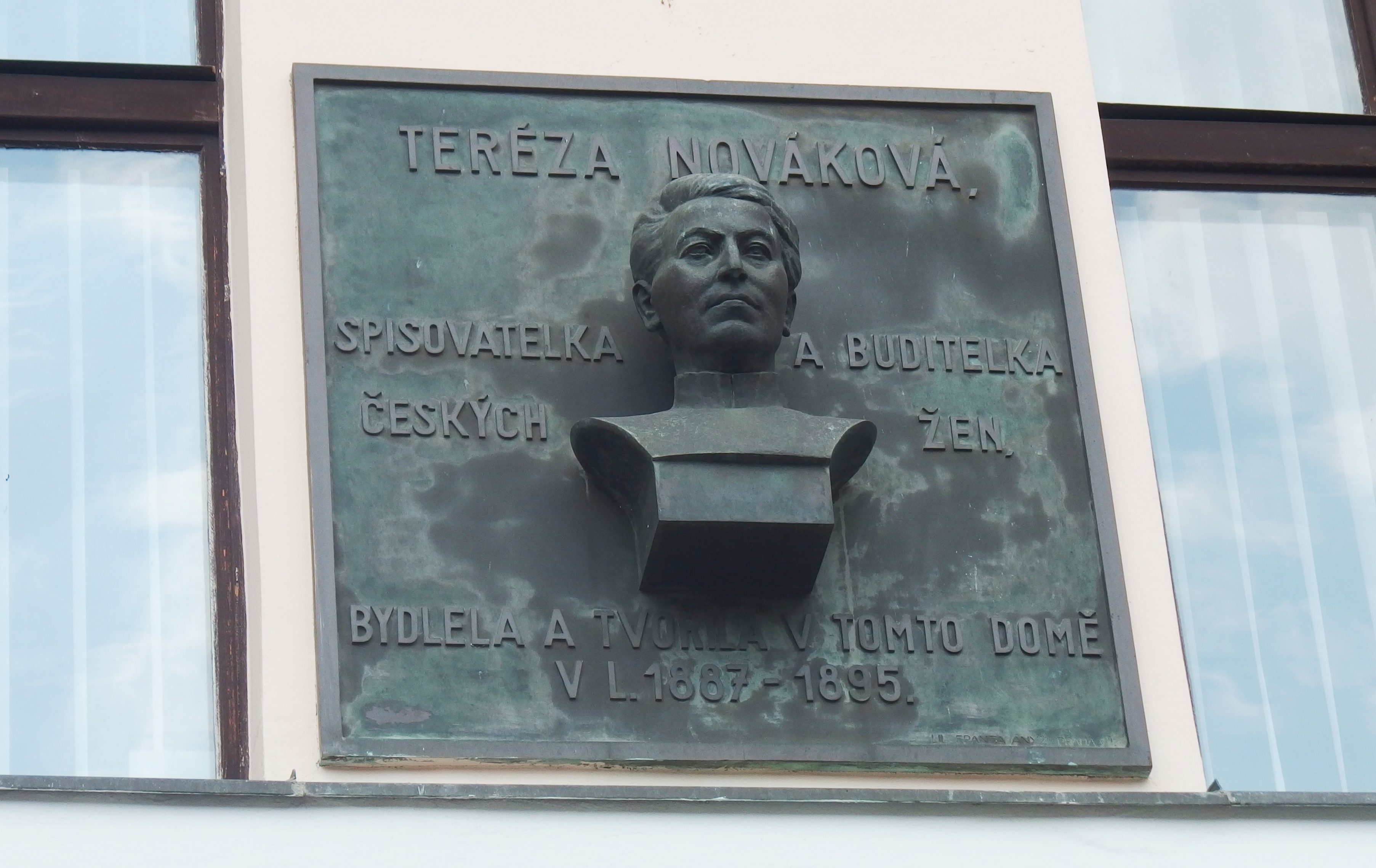 Litomyšl, Svitavy District, Czech Republic.